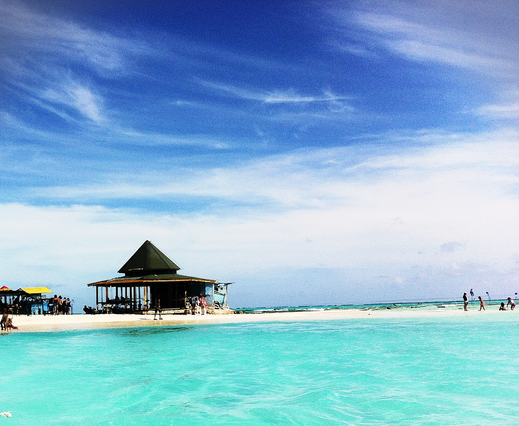 San Andres Island Aquarium